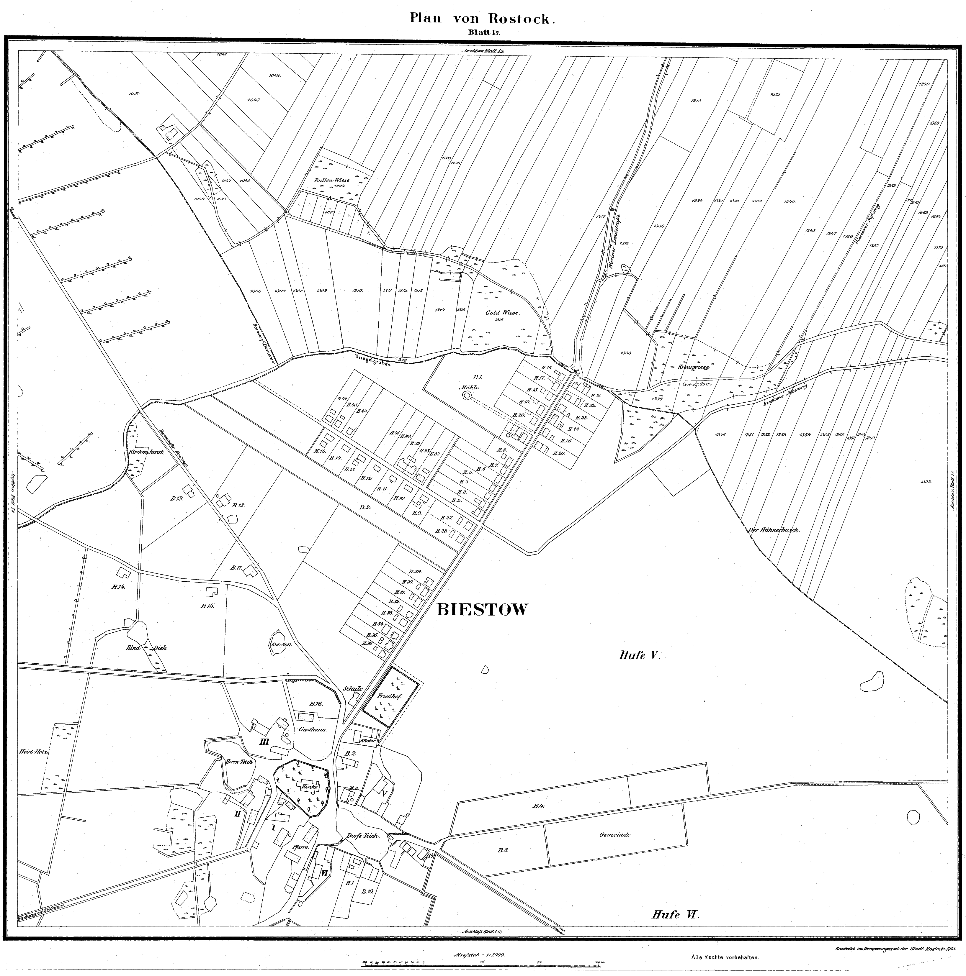 Map of the Rostock town from 1911